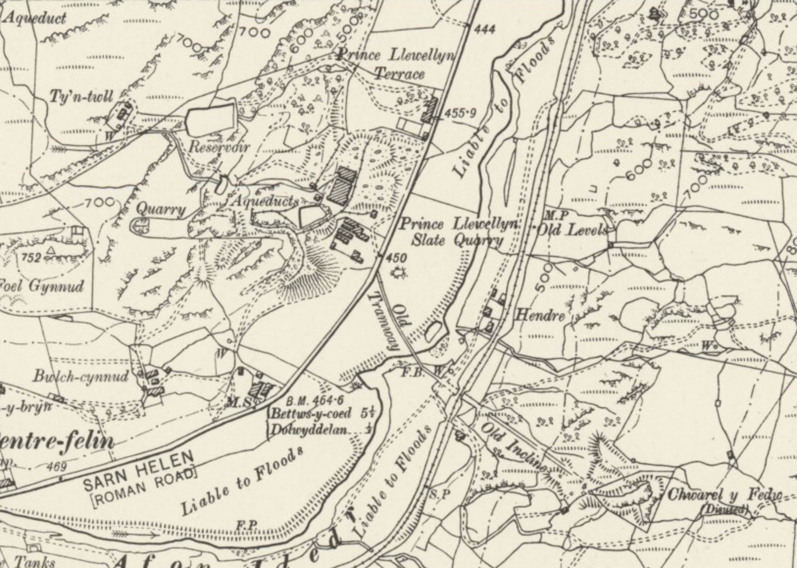 Extract of the Ordnance Survey map "Caernarvonshire XXIII.SE" of 1899, showing the area north-east of Dolwyddelan with the Prince Llewellyn and Chwarel Fedw quarries